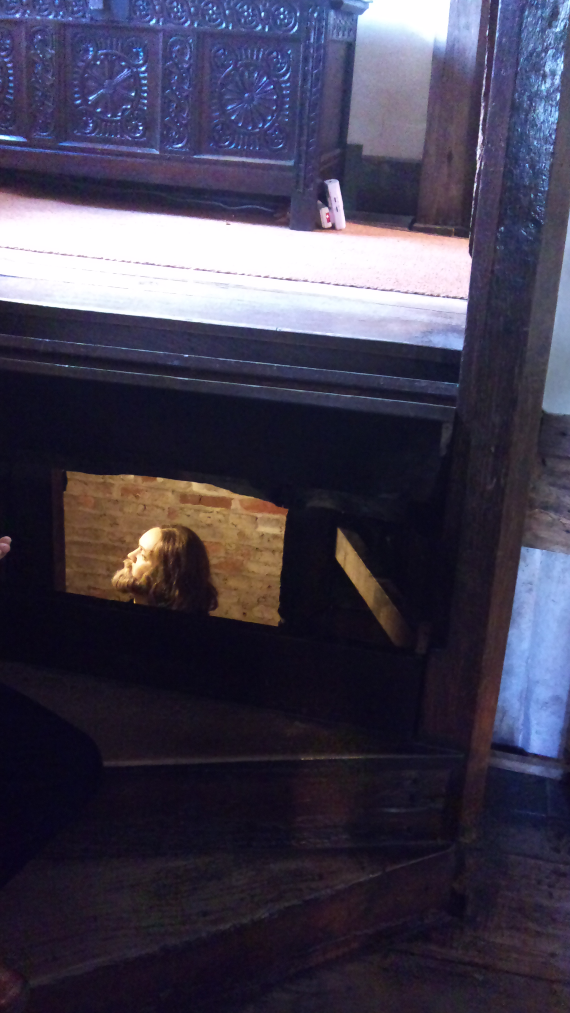 A "priest hole" (hiding) in the staitcase in 16th c. manor house, Harvington Hall, Worcestershire,UK. It was made by St Nicholas Owen ("Little John").